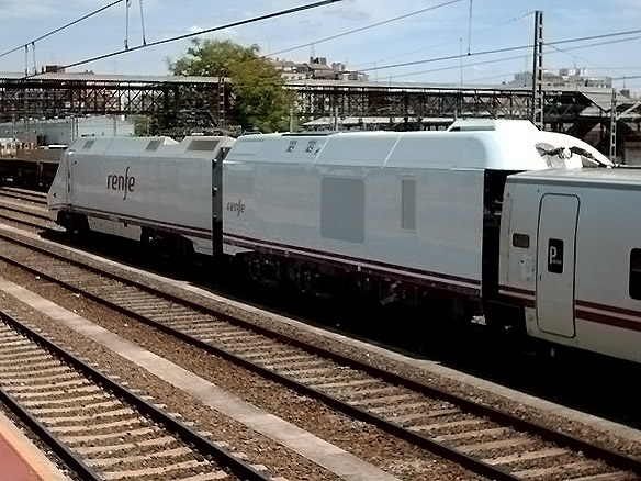 Train Renfe Class 730 (hydrid version of Renfe Class 130) in tests in Valladolid (Spain)